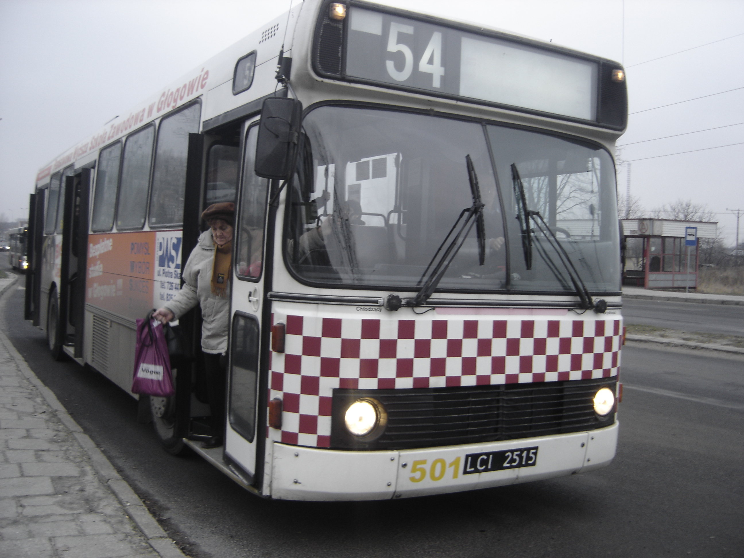 DAB 12-1200B 222P bus (#501) in Głogów, Poland. Built 1995, KM Głogów operator.